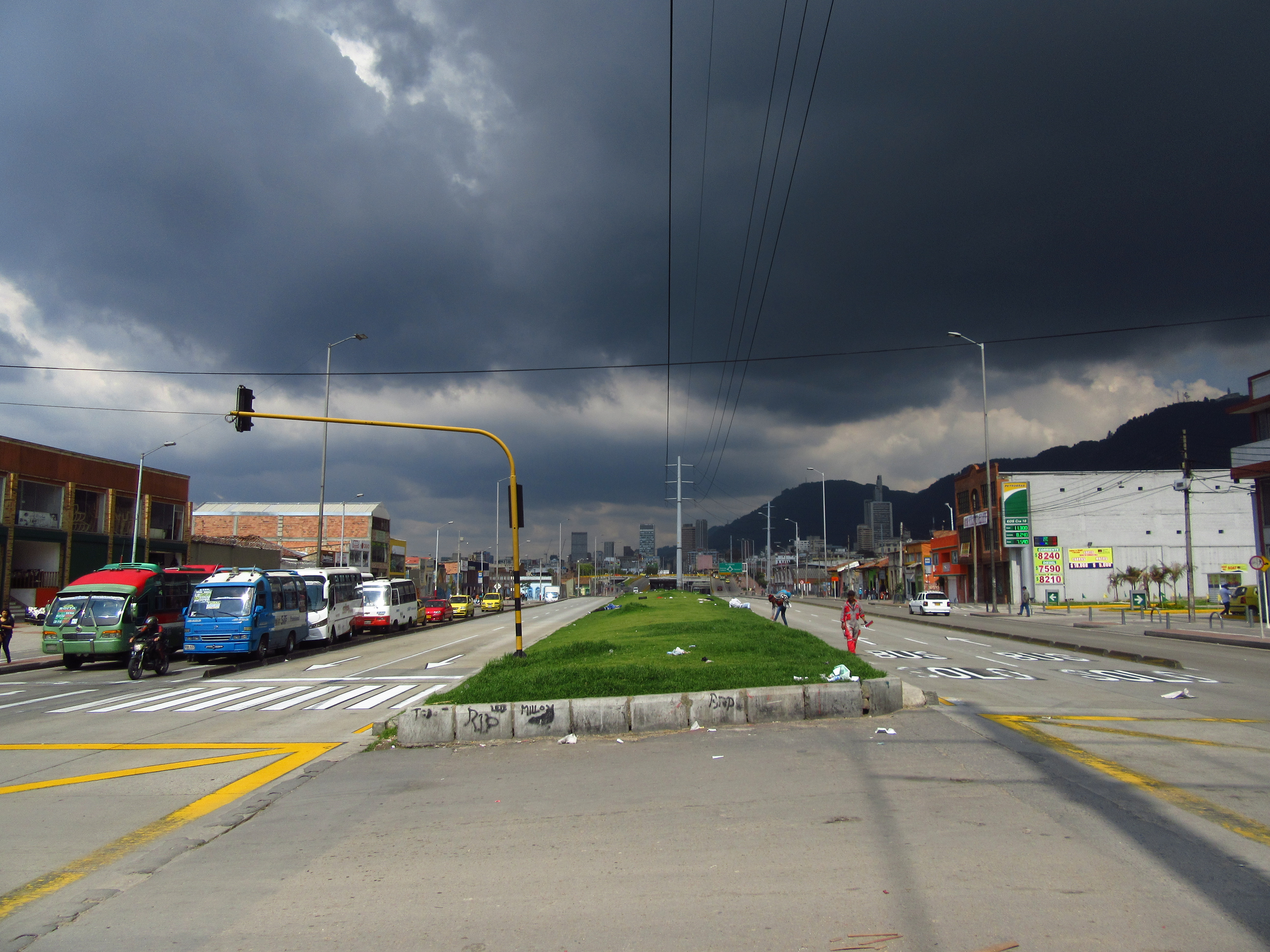 Bogotá